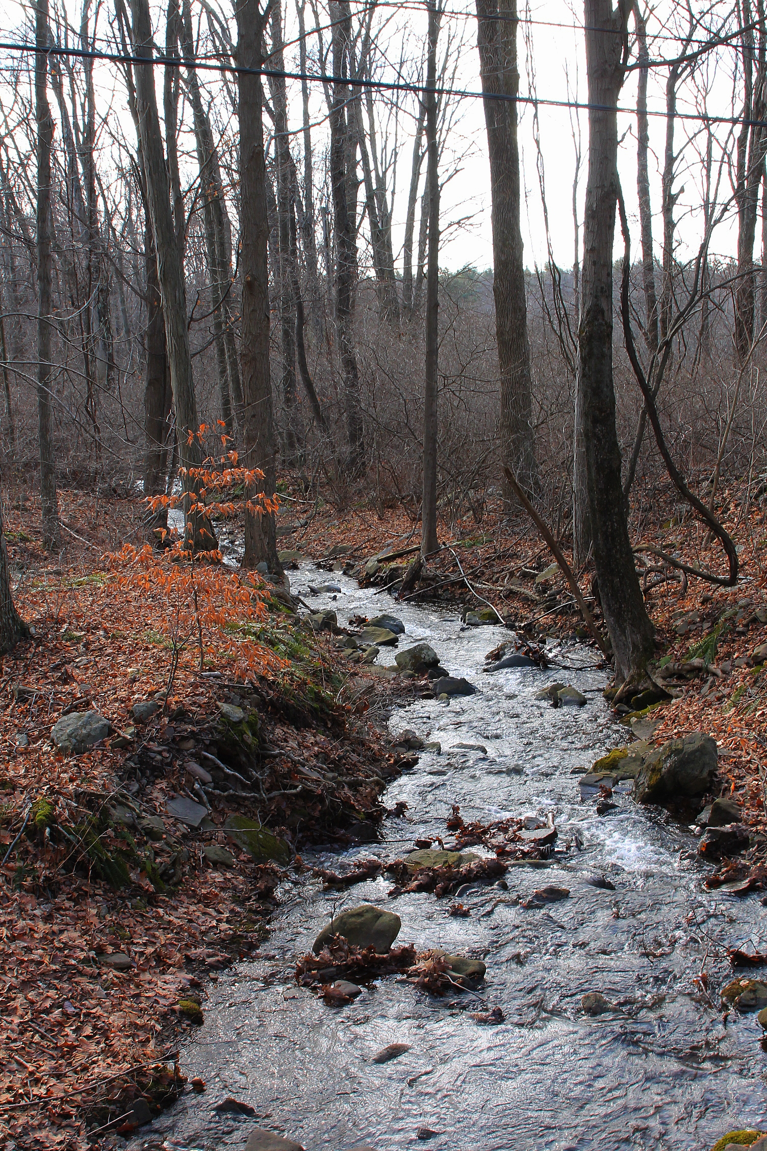 Maple Run, a major tributary of Kitchen Creek, looking downstream